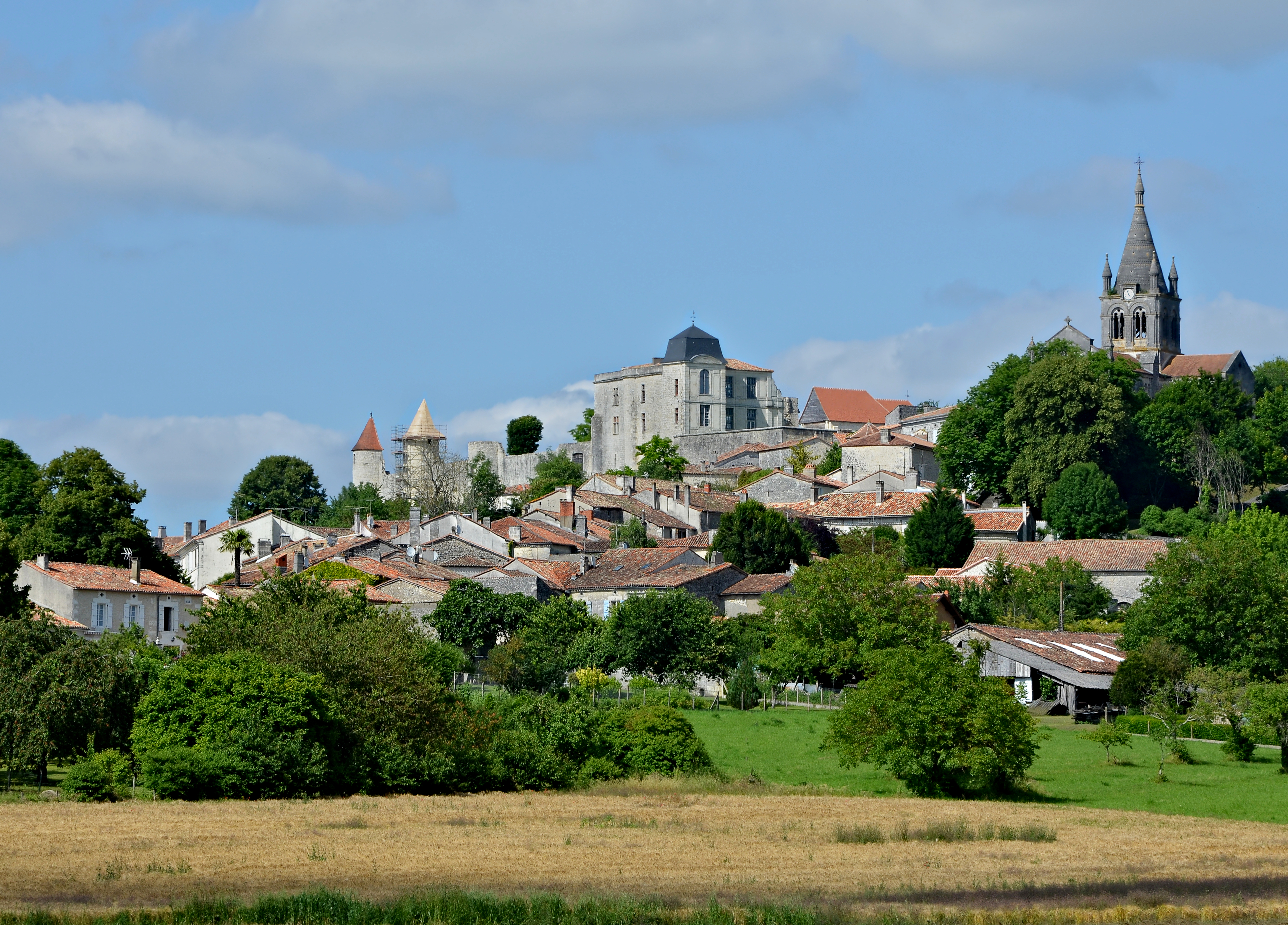 The village as seen from road D17, Villebois-Lavalette, Charente, France.